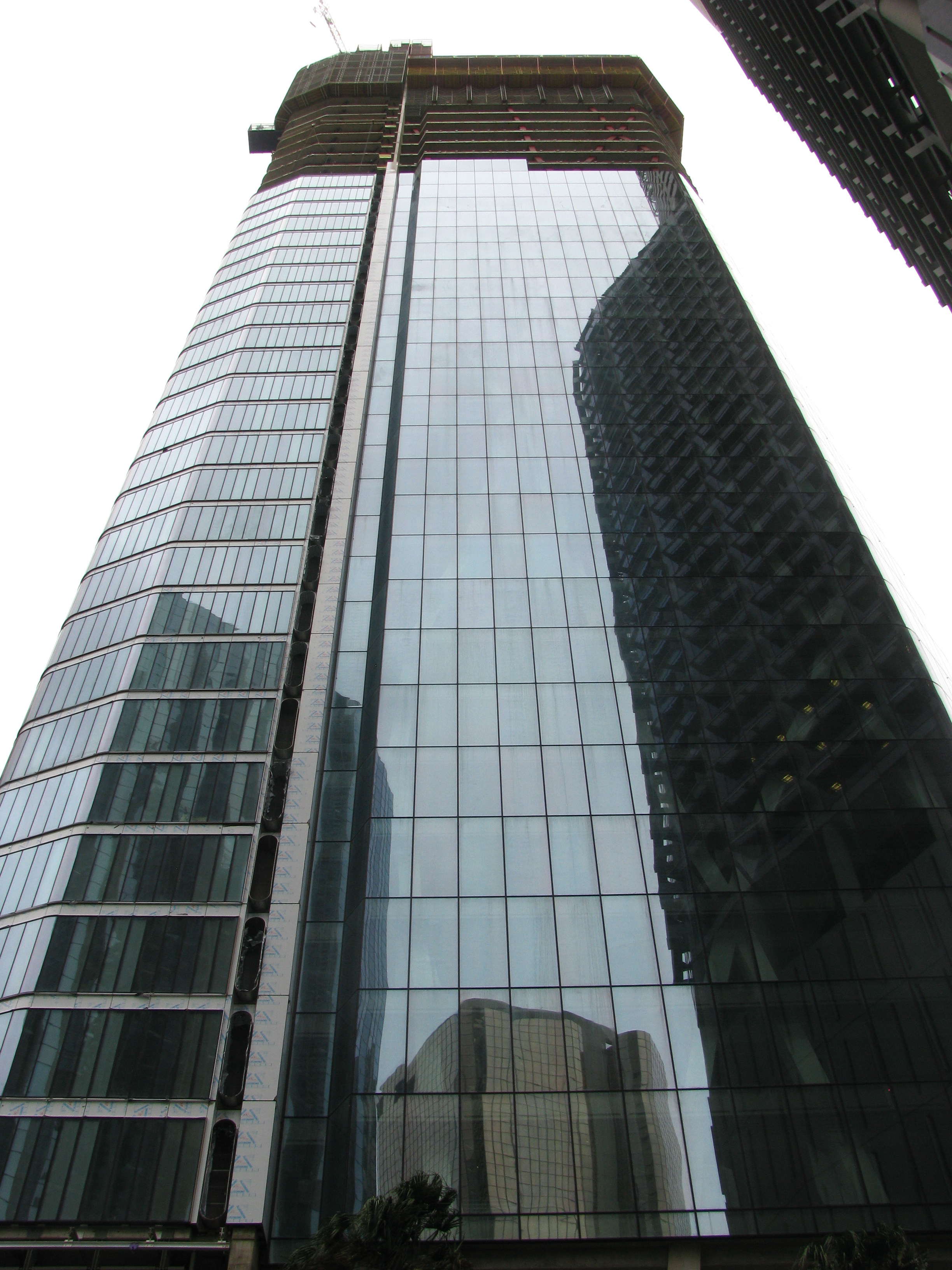 One One One Eagle Street, taken from the ground